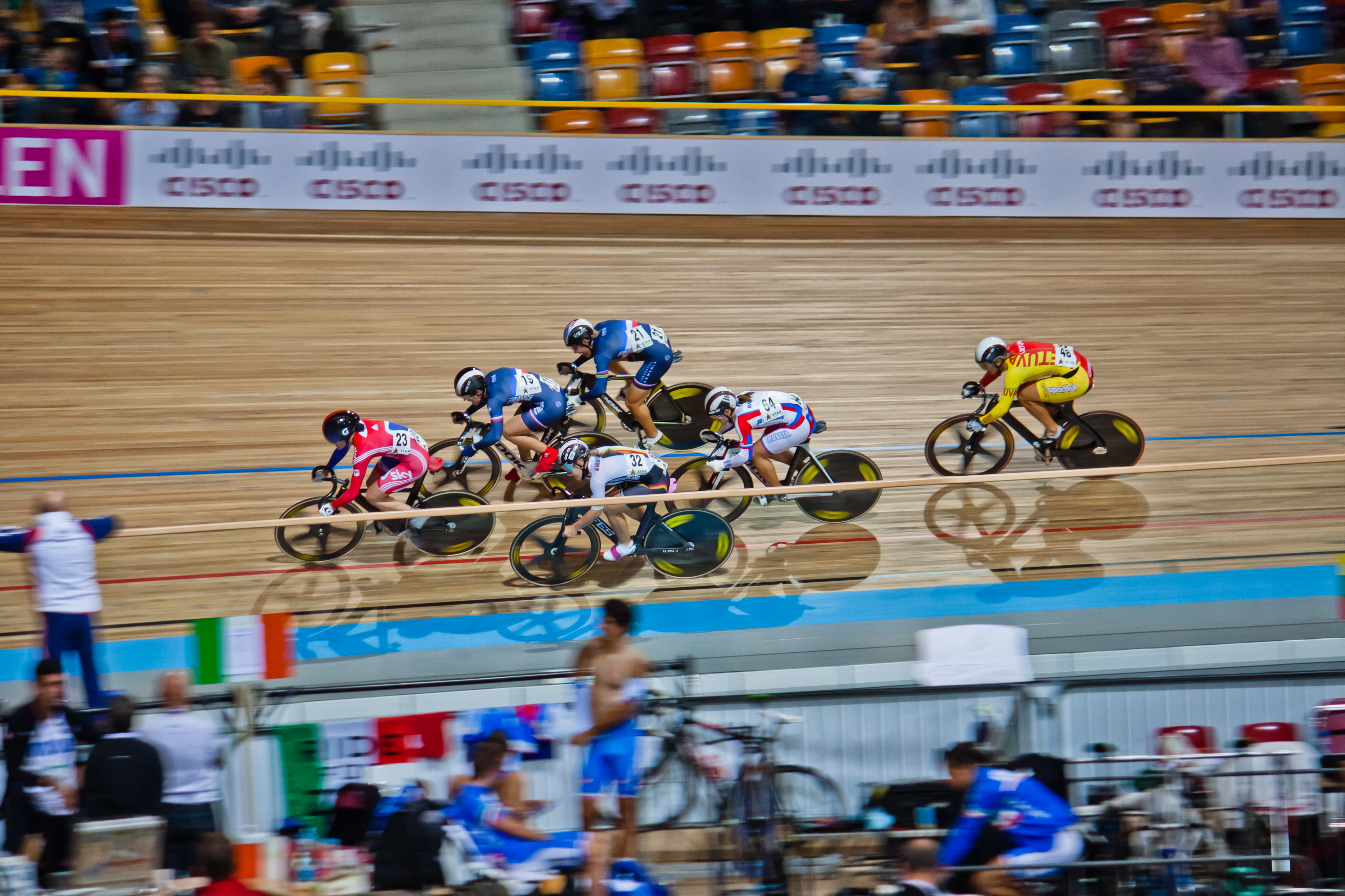 Women's keirin final. Victoria Pendleton (GBR), Sandie Clair (FRA), Kristina Vogel (GER), Clara Sanchez (FRA), Viktoria Baranova (RUS) & Simona Krupeckaite (LTU). Vicky Pendleton won the gold. At the 2011 European Elite Track Cycling Championships in Apeldoorn, Netherlands.